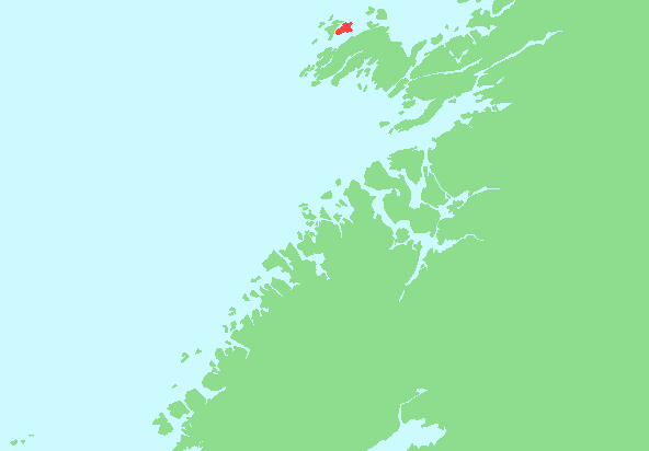 Locator map of Borgan, Nord-Trøndelag, Norway